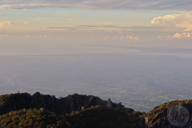 Pacific Ocean as seen from the summit of Volcán Barú